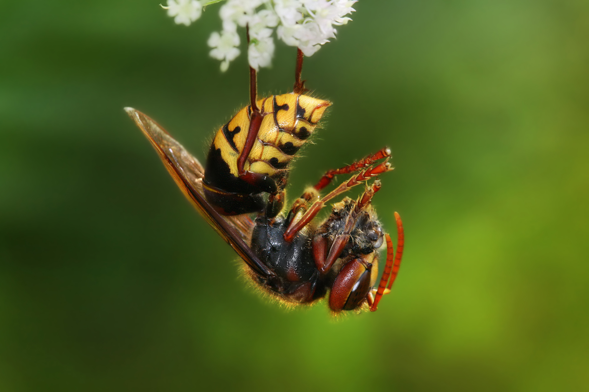 Description: Hornets are the largest eusocial wasps, reaching up to 45 millimetres (1.8 inches) in length. The true hornets make up the genus Vespa, and are distinguished from other vespines by the width of the vertex (part of the head behind the eyes), which is proportionally larger in Vespa; and by the anteriorly rounded gasters (the section of the abdomen behind the wasp waist). See wasp and bee characteristics to help identify an insect. As shown a Vespa crabro germana, where germana describes the colour form.